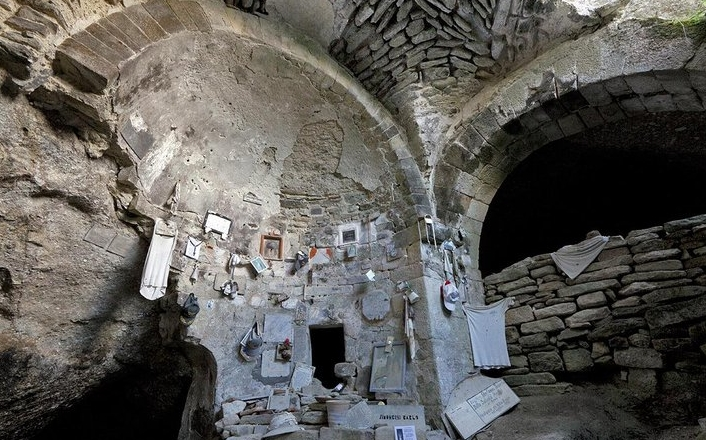 Grotta di San Mamiliano a Montecristo